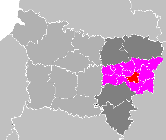 Maps of arrondissements and cantons of France: Arrondissement de Laon